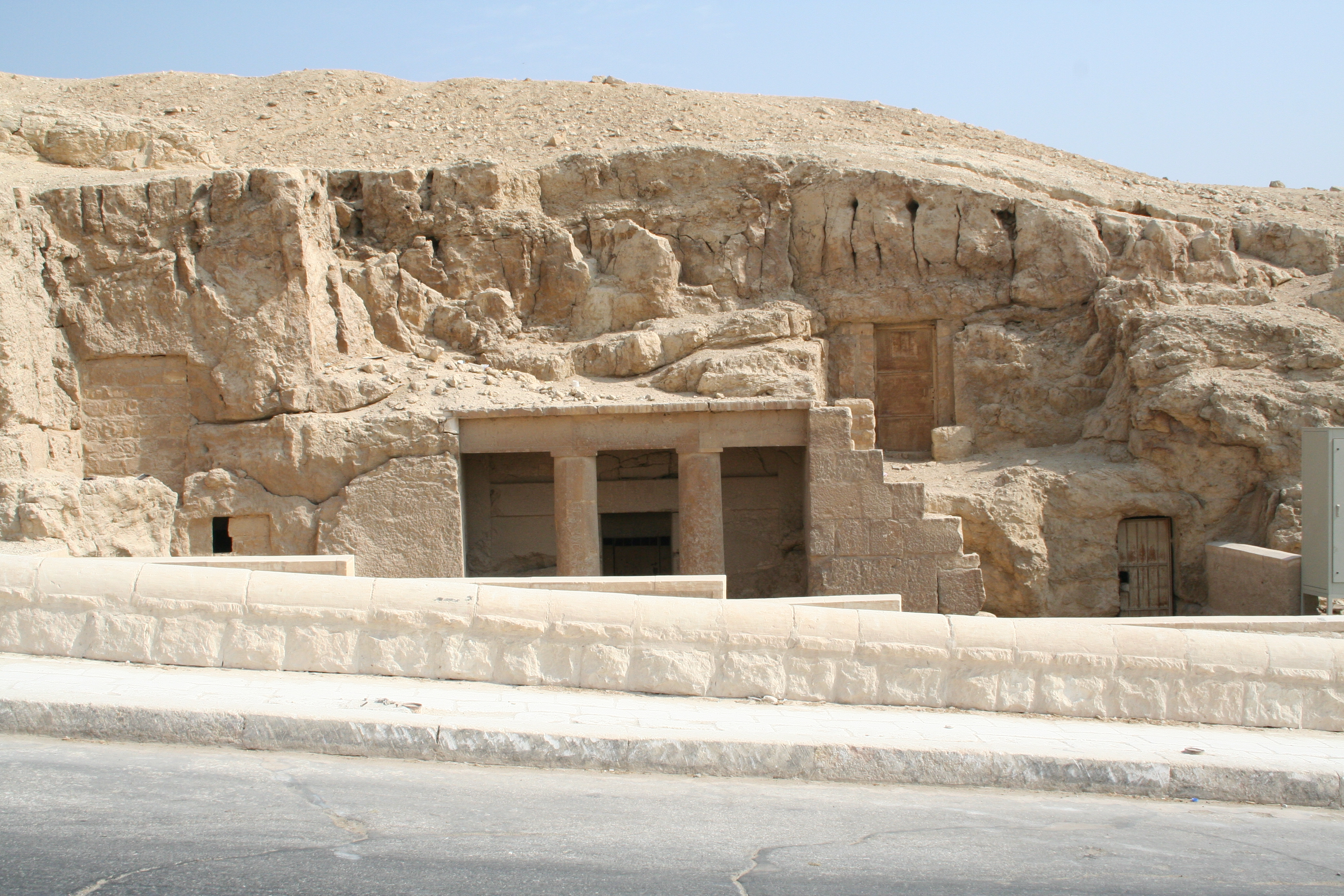 Rock-cut tombs north of Sphinx; tomb of Inkaf and others